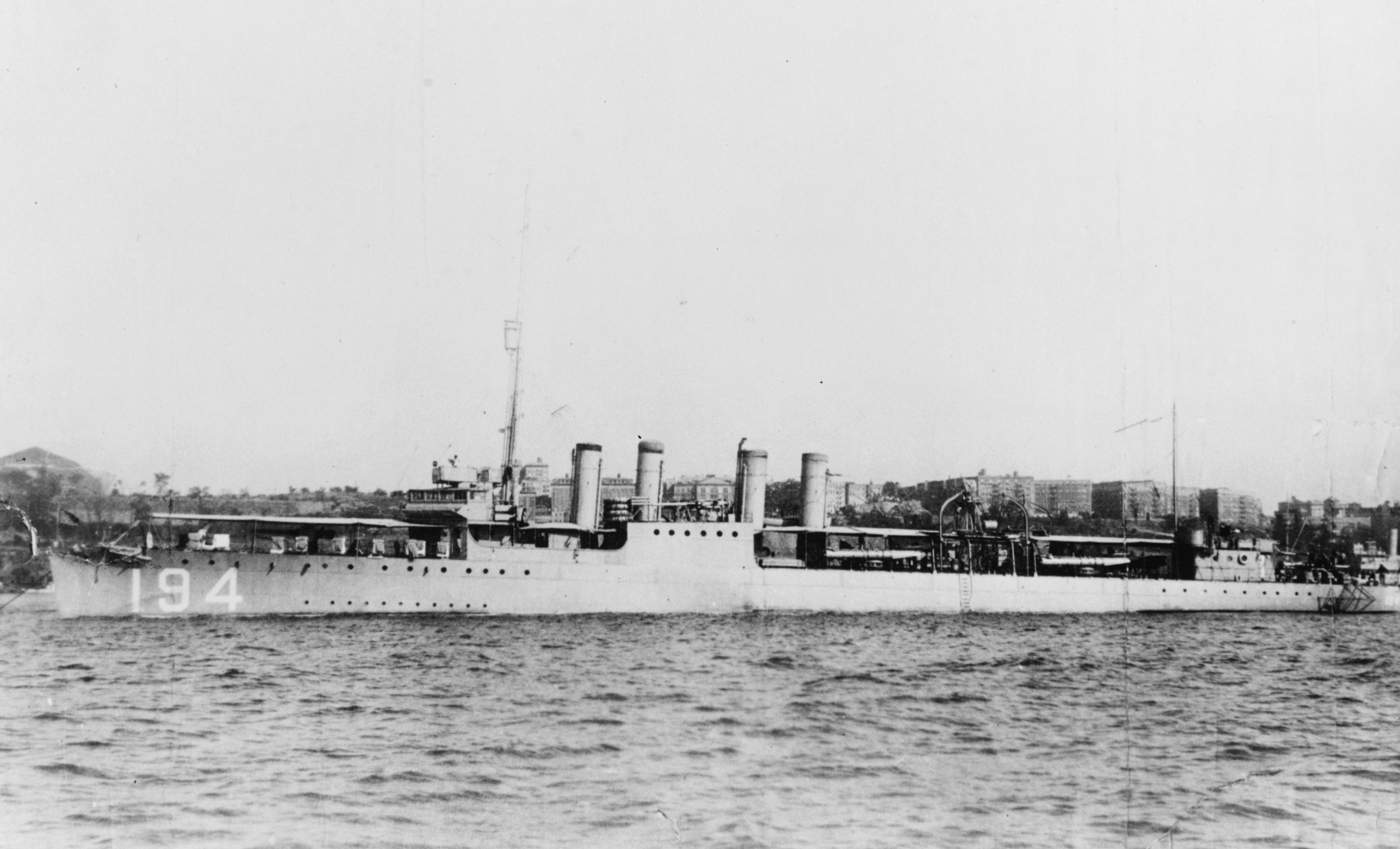 The U.S. Navy destroyer USS Hunt (DD-194) at anchor in New York City harbour, circa 1920.